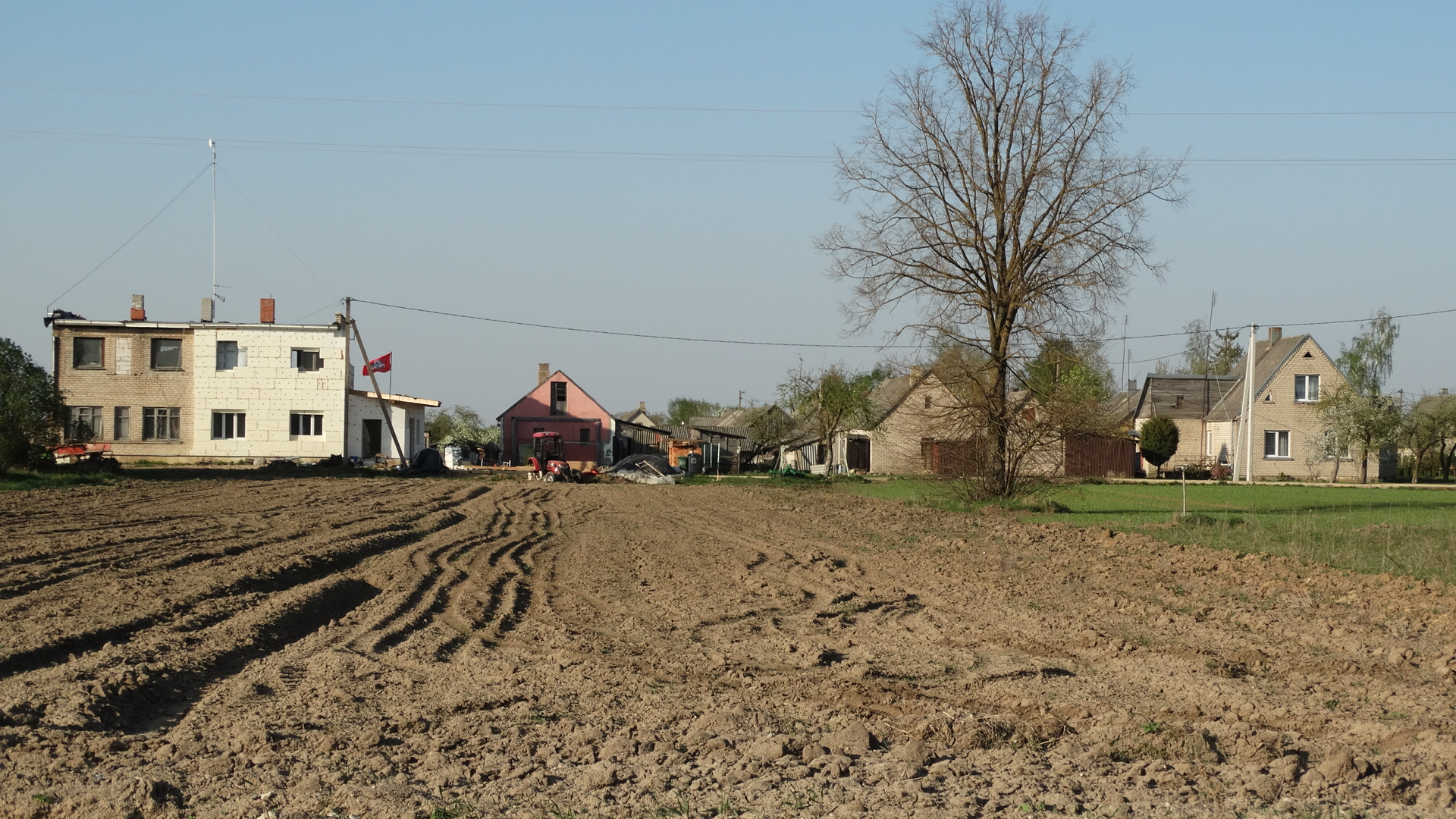 Birželiai, Radviliškis district, Lithuania